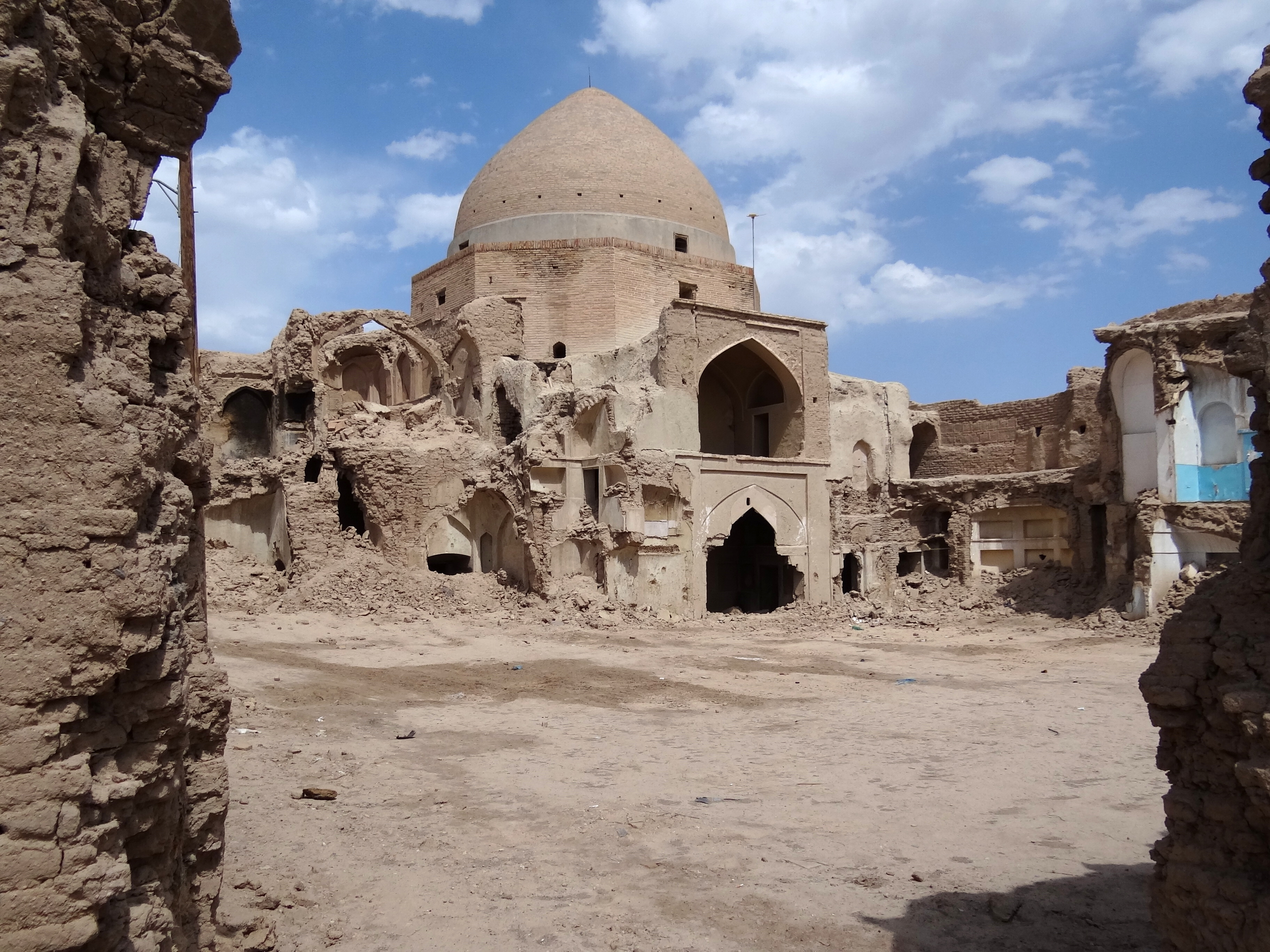 Old City Street Scene - Na'in - Central Iran